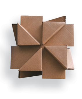 bloxes